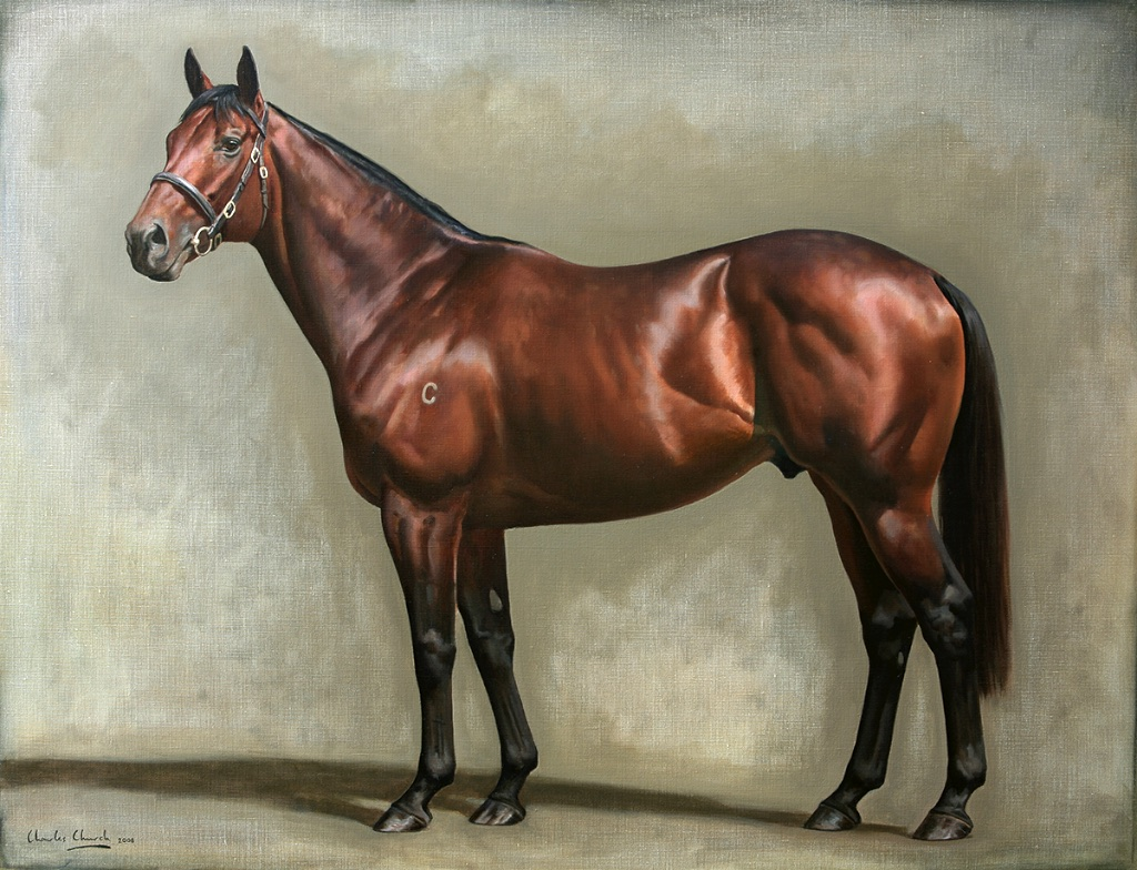 Fastnet Rock: Winner of the 2005 Lightning Stakes and Oakleigh Plate, by Dorset-based painter of horses and country life, Charles Church